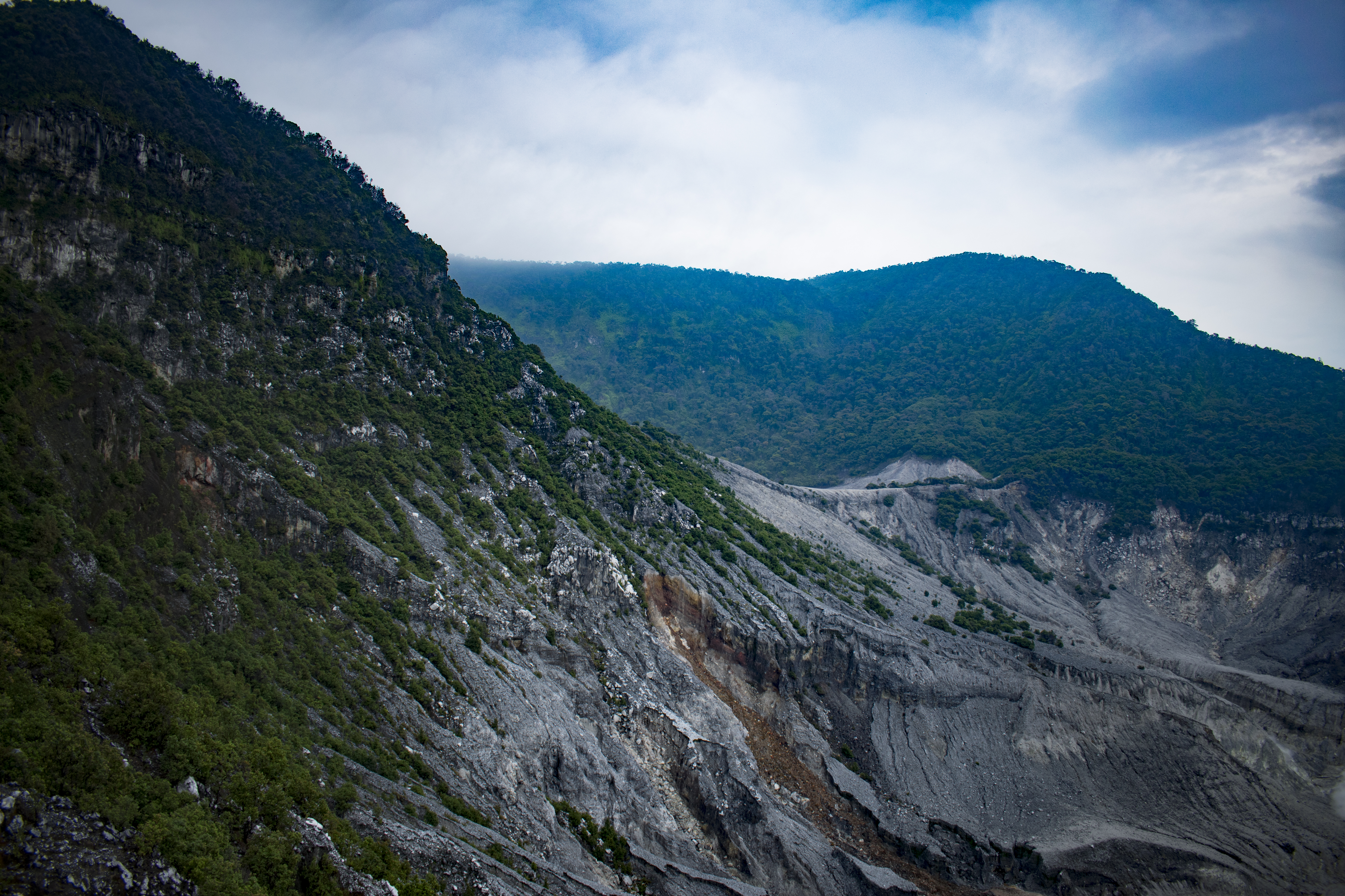 Tangkuban Perahu Mountain, Indonesia. The most beautiful mountain in Lembang, Bandung